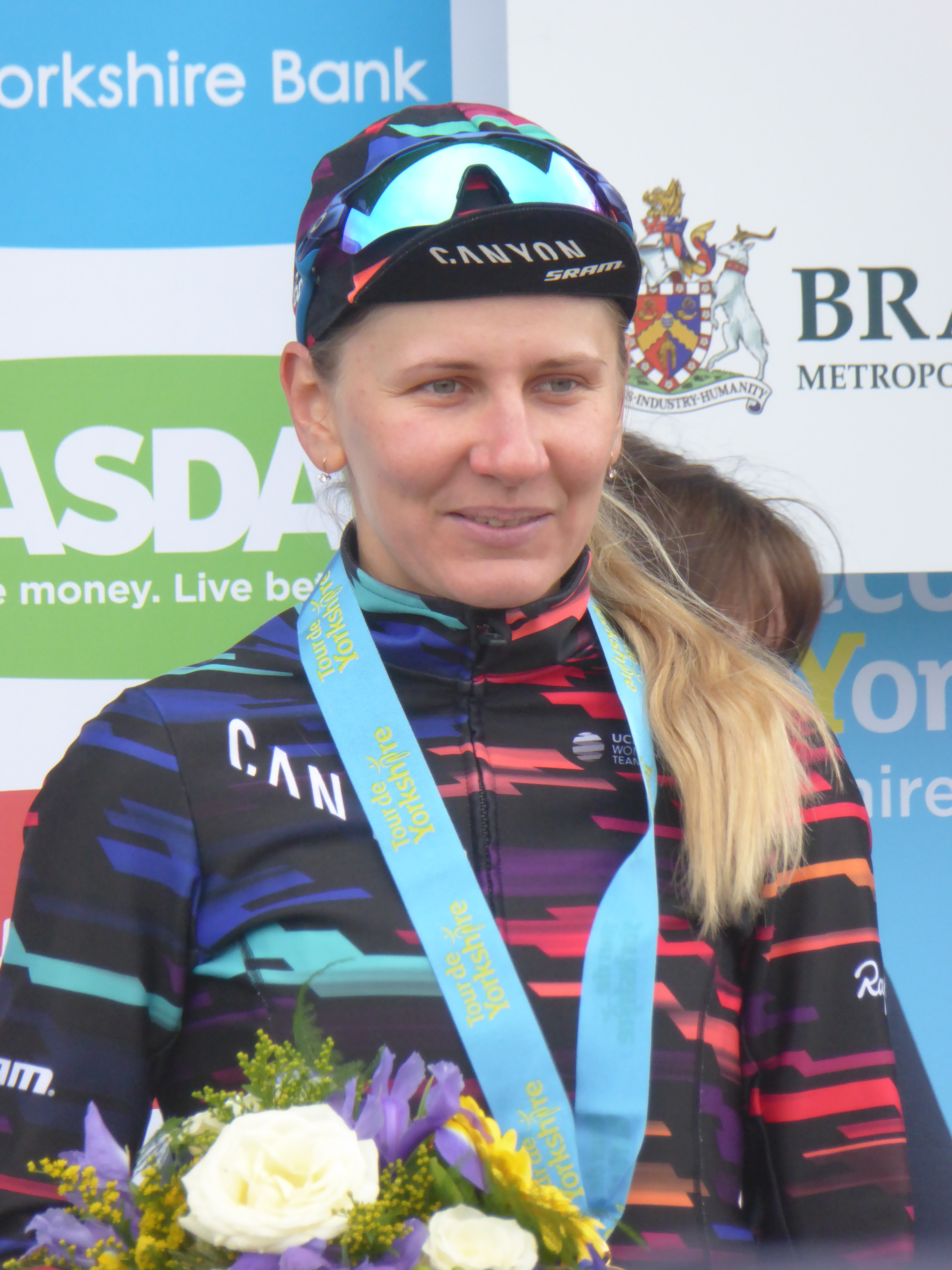 Third place in the general classification in the 2018 Women's Tour de Yorkshire, Alena Amialiusik of the Canyon-SRAM team.